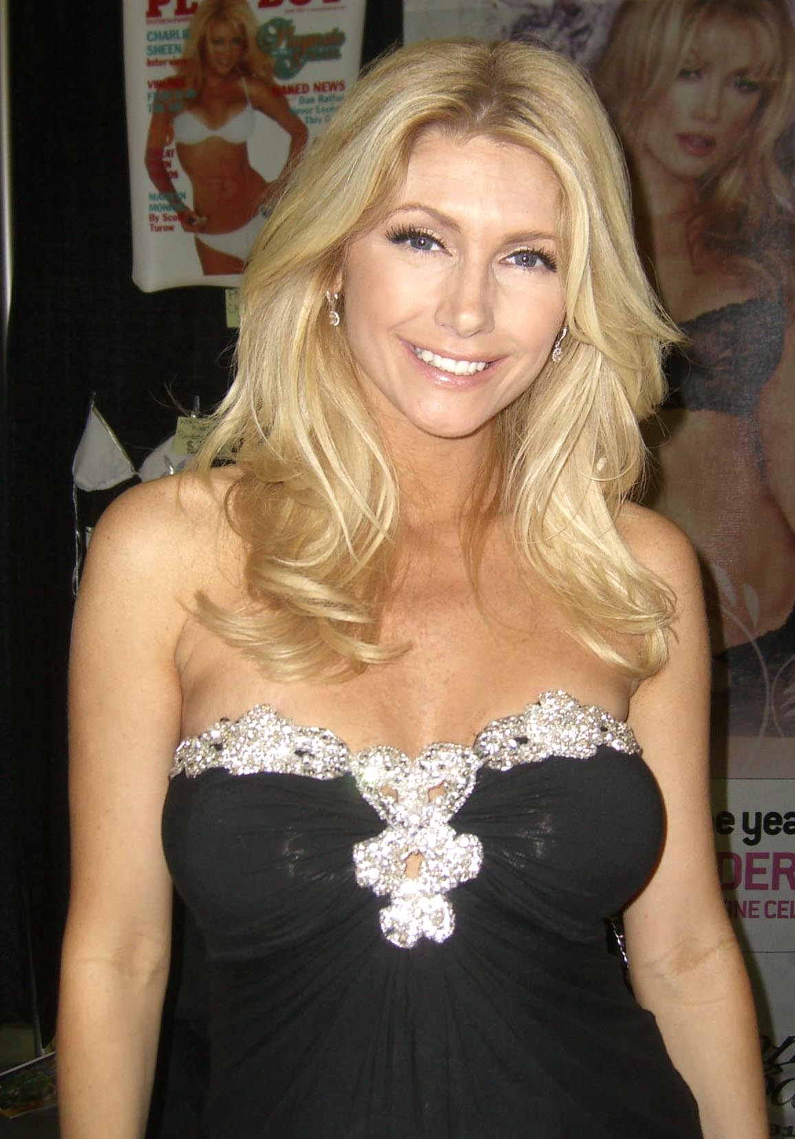 Actor Brande Roderick at the Big Apple Convention in Manhattan. Photographed by Luigi Novi. This photo may only be used if the photographer is properly credited. (See Licensing information below.)